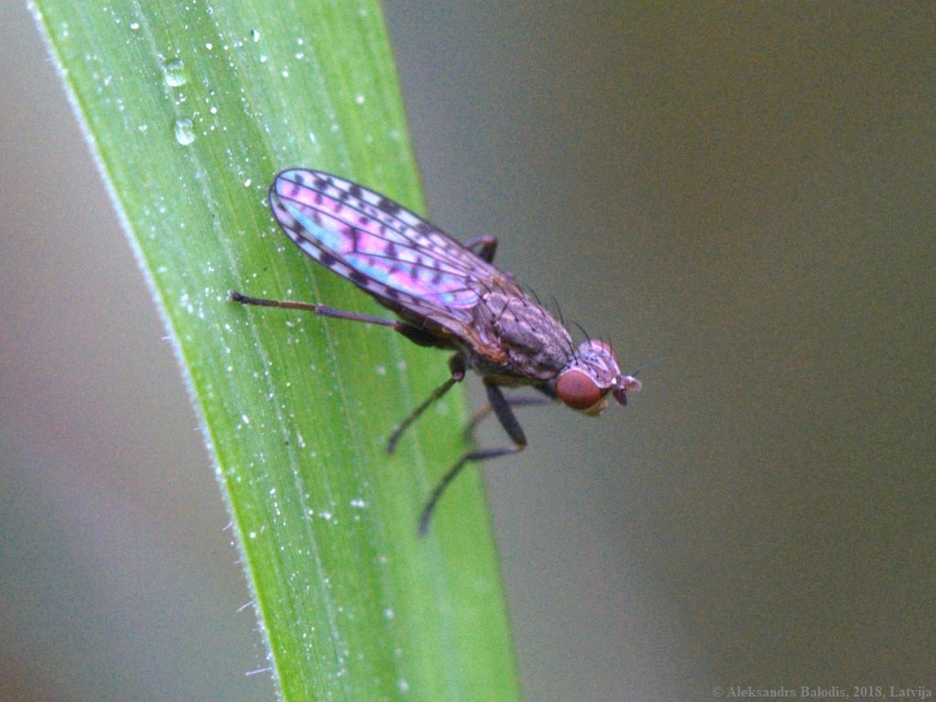 Pherbellia schoenherri